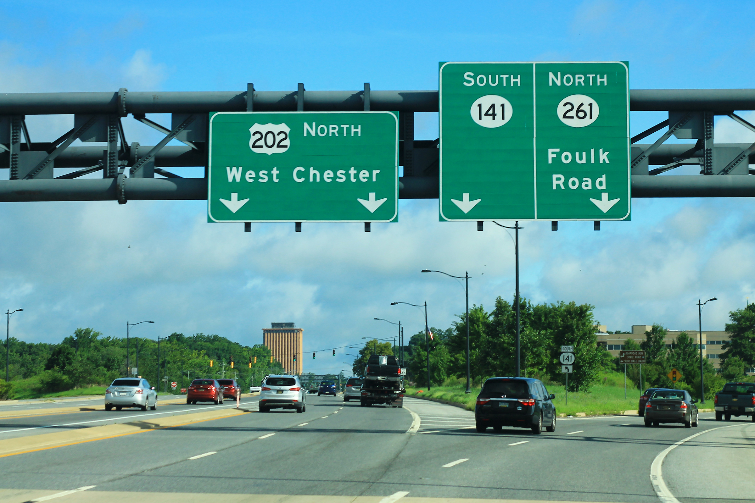 US202 North - DE141 South DE261 North